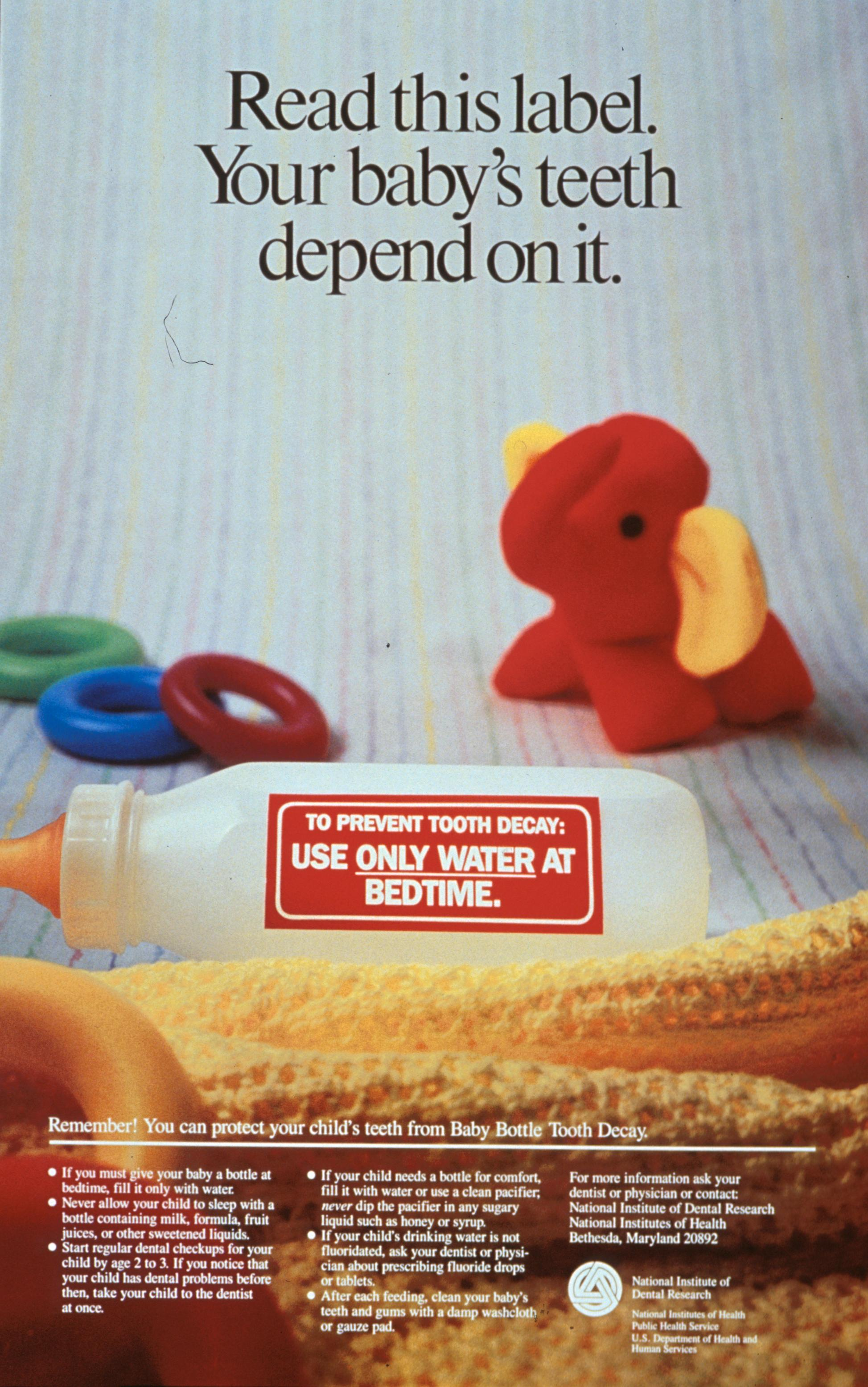 Contributor(s): National Institute of Dental Research (U.S.) Publication: [Bethesda, Md.] : National Institute of Dental Research, [19--] Language(s): English Format: Still image Subject(s): Dental Caries -- prevention & control Oral Hygiene Dental Care Bottle Feeding -- adverse effects Infant Genre(s): Posters Abstract: Multicolor poster with black and white lettering. Title at top of poster. Entire poster is a reproduction of a color photo showing a baby bottle on a bed sheet among several teething rings and a toy elephant. Note appears on side of baby bottle, as if a warning label. Lengthy caption at bottom of poster offers advice on oral hygiene and dental care for infants. Publisher information in lower right corner. Rights: The National Library of Medicine believes this item to be in the public domain. Extent: 1 photomechanical print (poster) : 50 x 32 cm. Technique: color NLM Unique ID: 101438417 NLM Image ID: A025851 Permanent Link